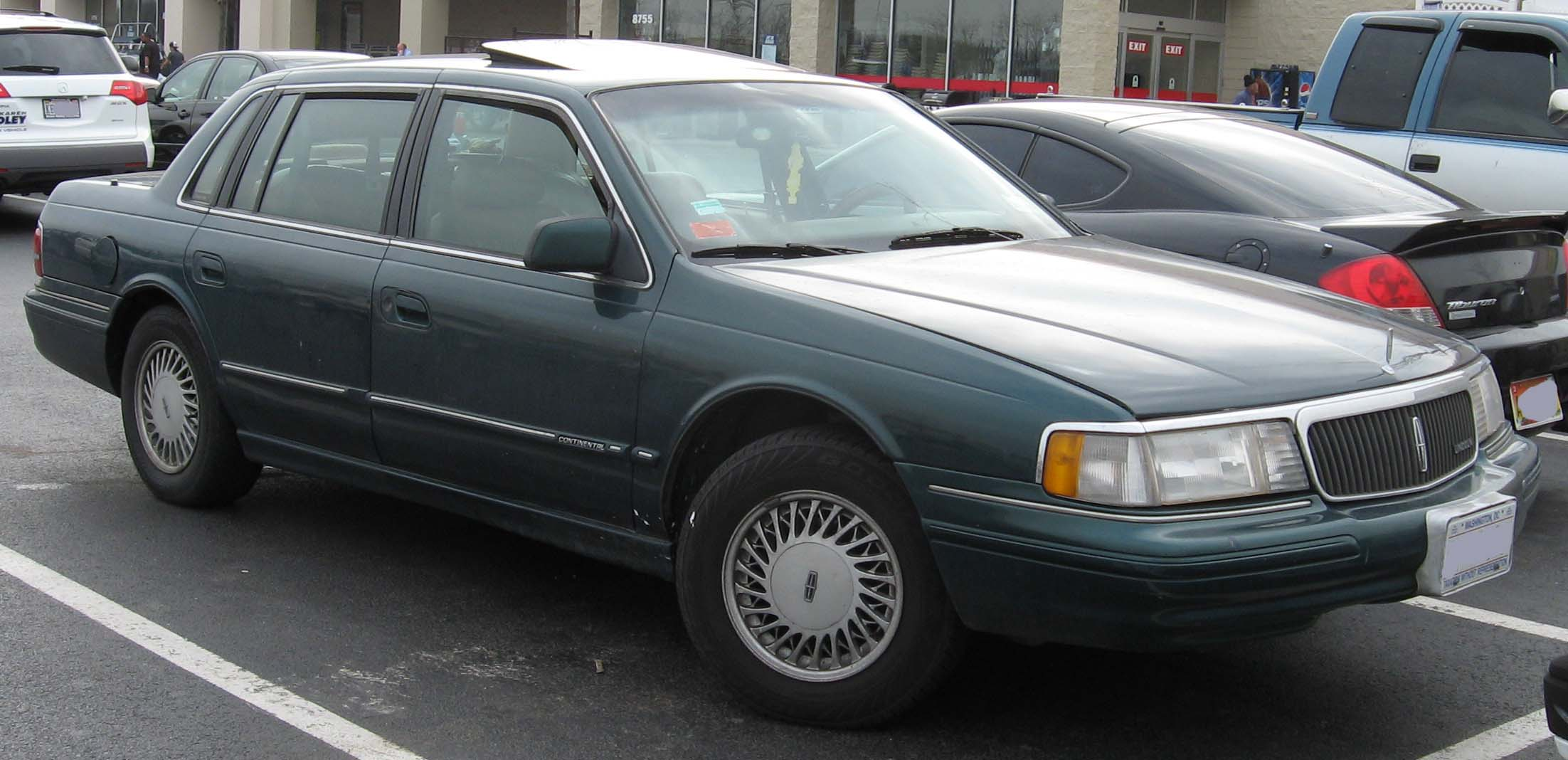 1992-1994 Lincoln Continental photographed in USA.